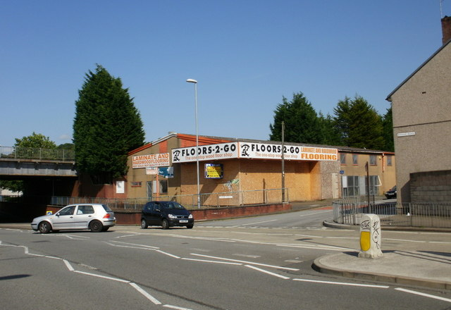 Floors-2-Go Wharf Road, Newport Floors-2-Go got up and went. Their current premises are at the Maesglas Retail Park in the west of the city. This empty shop is on Wharf Road at the junction with Phillip Street